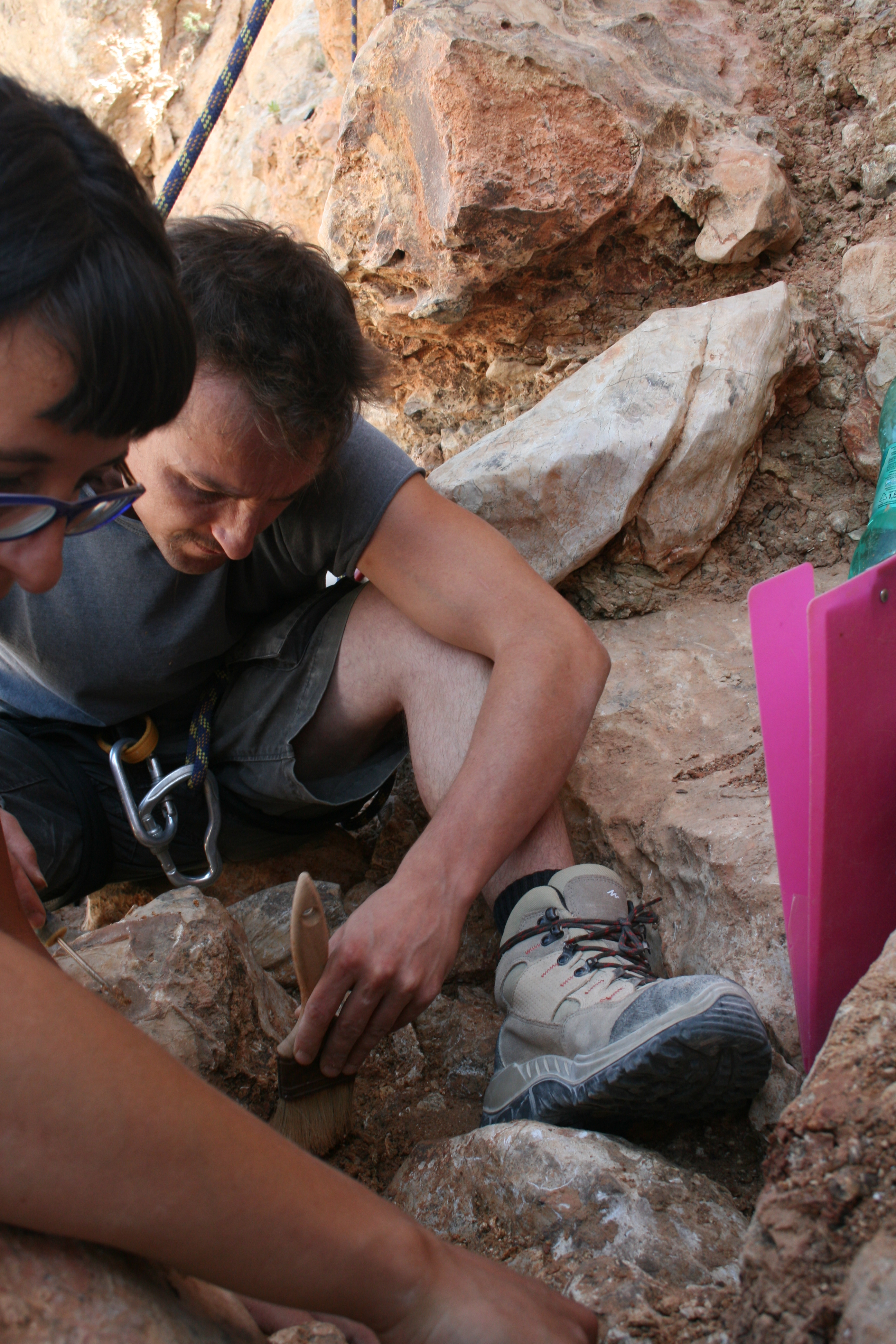 Pirro Nord - excavation